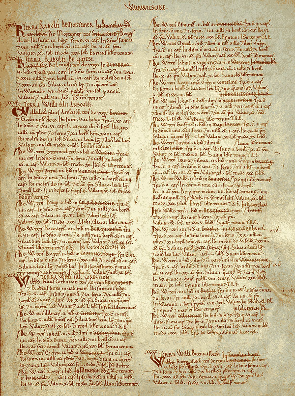 Page from the Domesday Book for Warwickshire, including listing of Birmingham